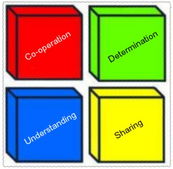 NGV Houses